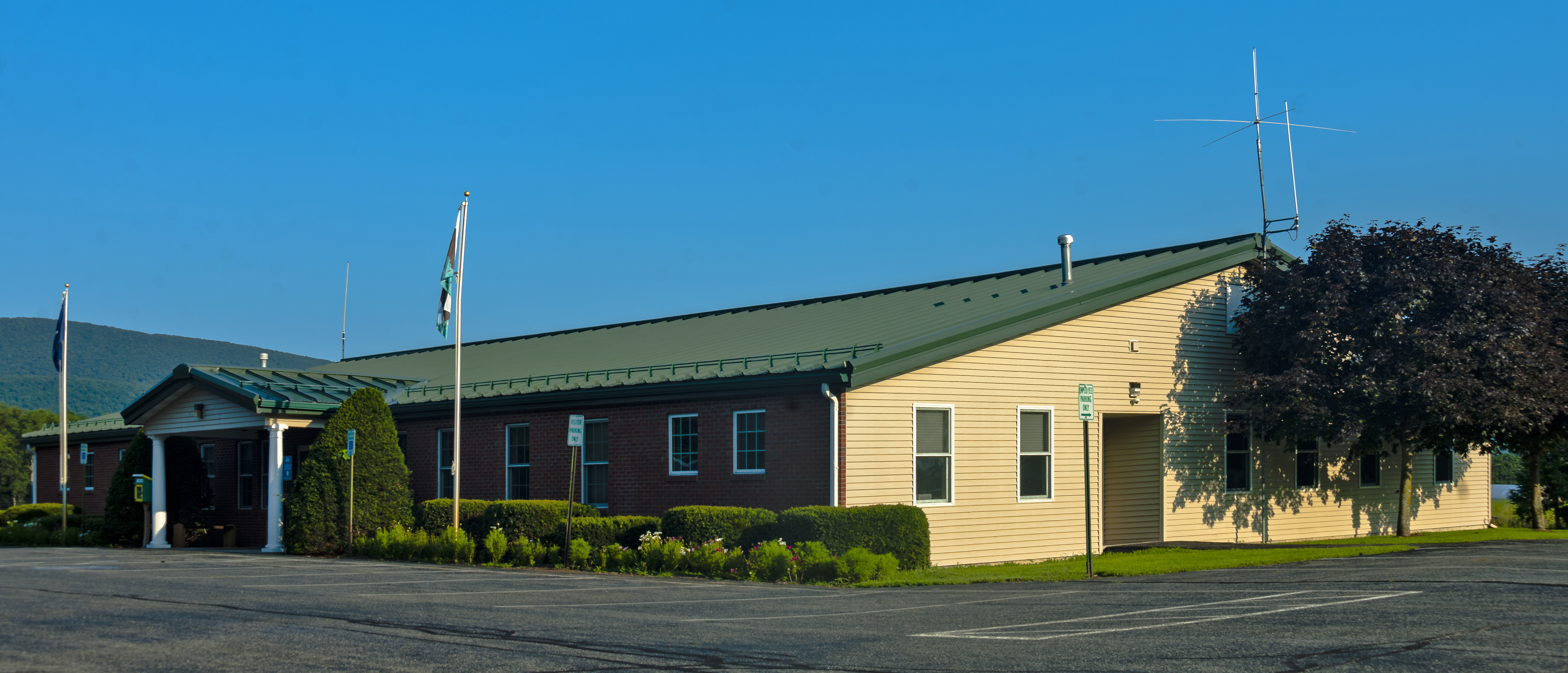 Town hall building, Copake, NY, USA